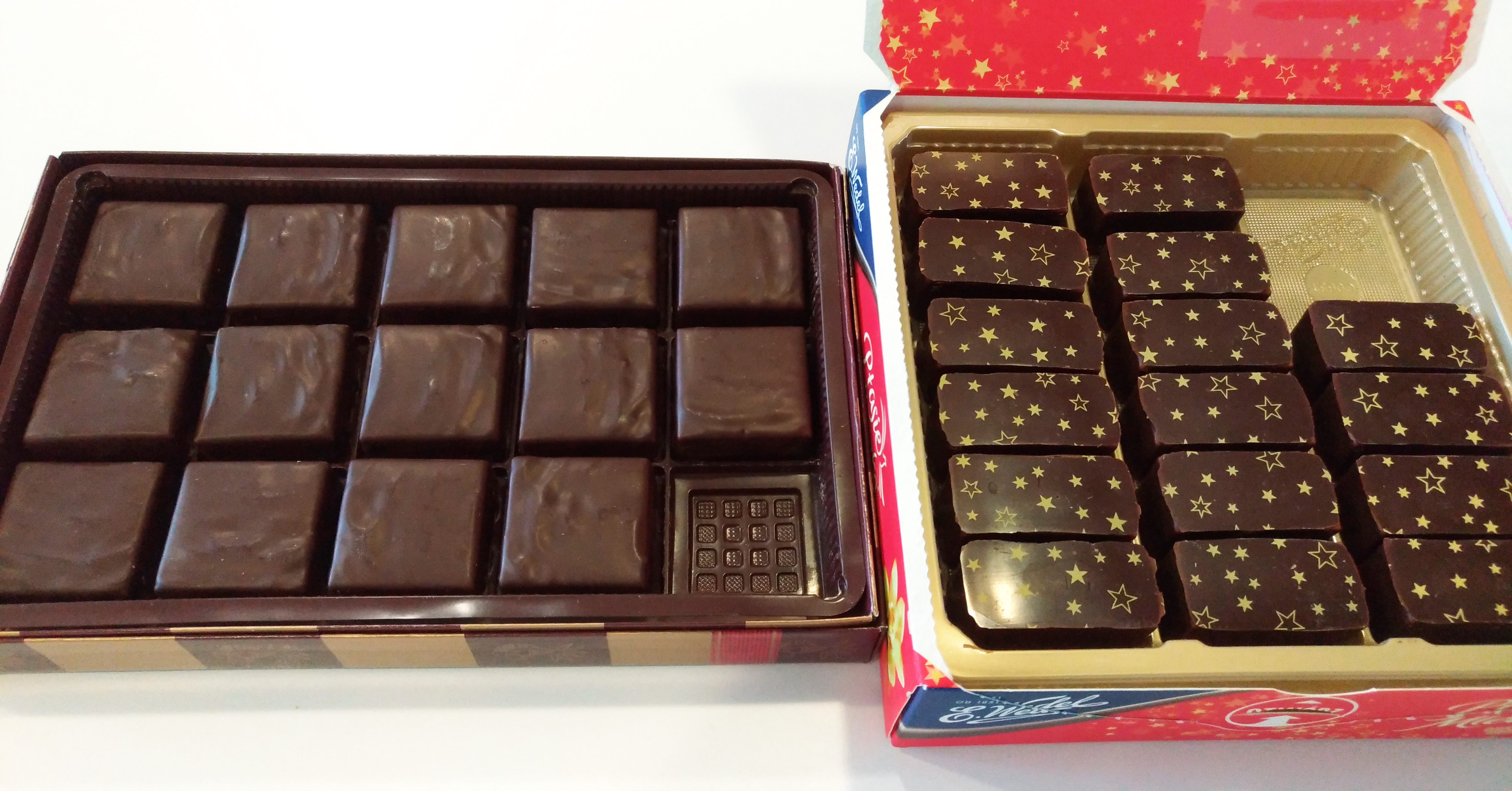 "Bird's milk" confectionery. Left: chocolates produced by Moscow Rot Front factory. Right: chocolates produced by Warsaw E. Wedel factory.